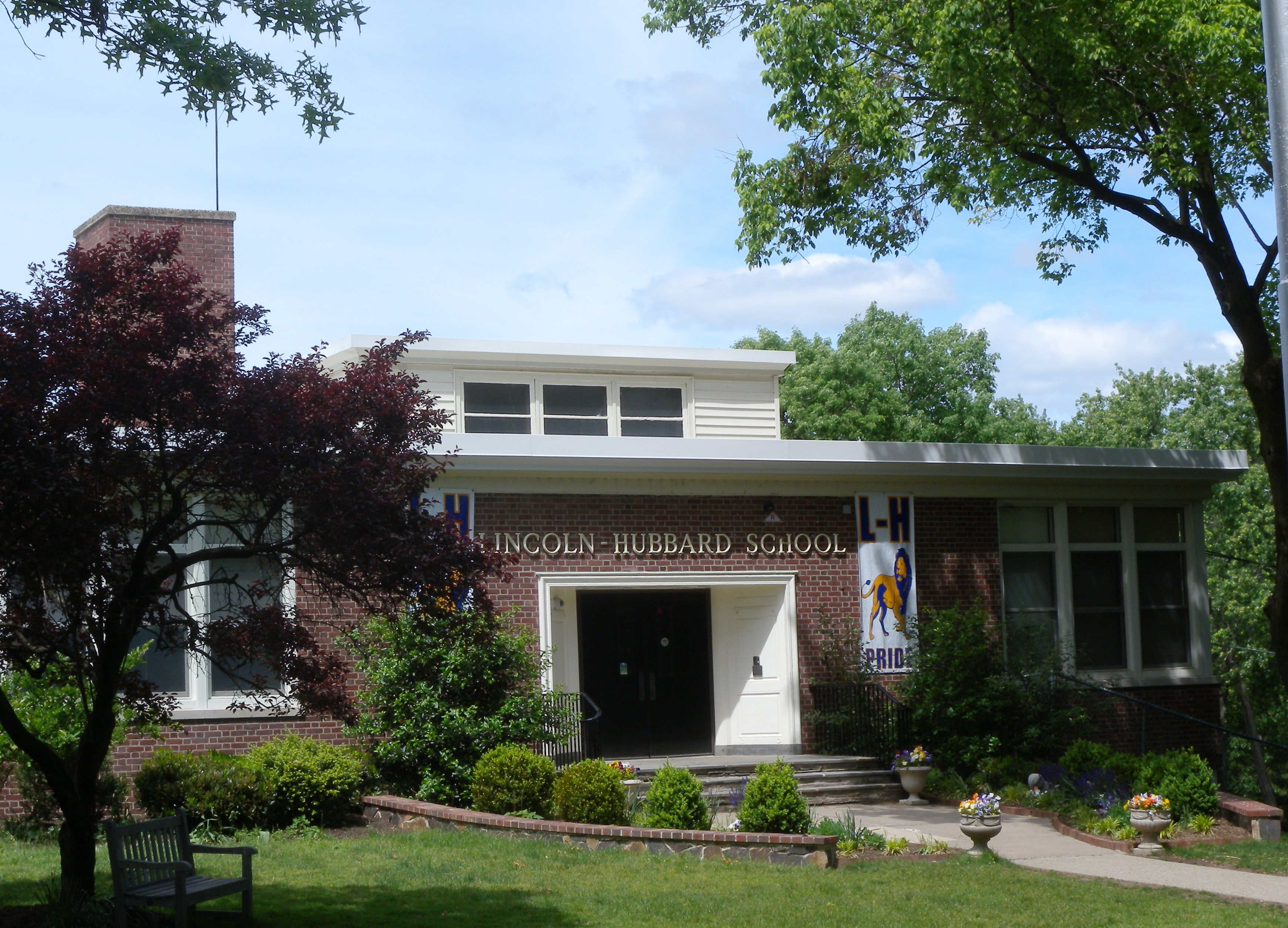 Looking west at Lincoln-Hubbard School on a sunny morning.